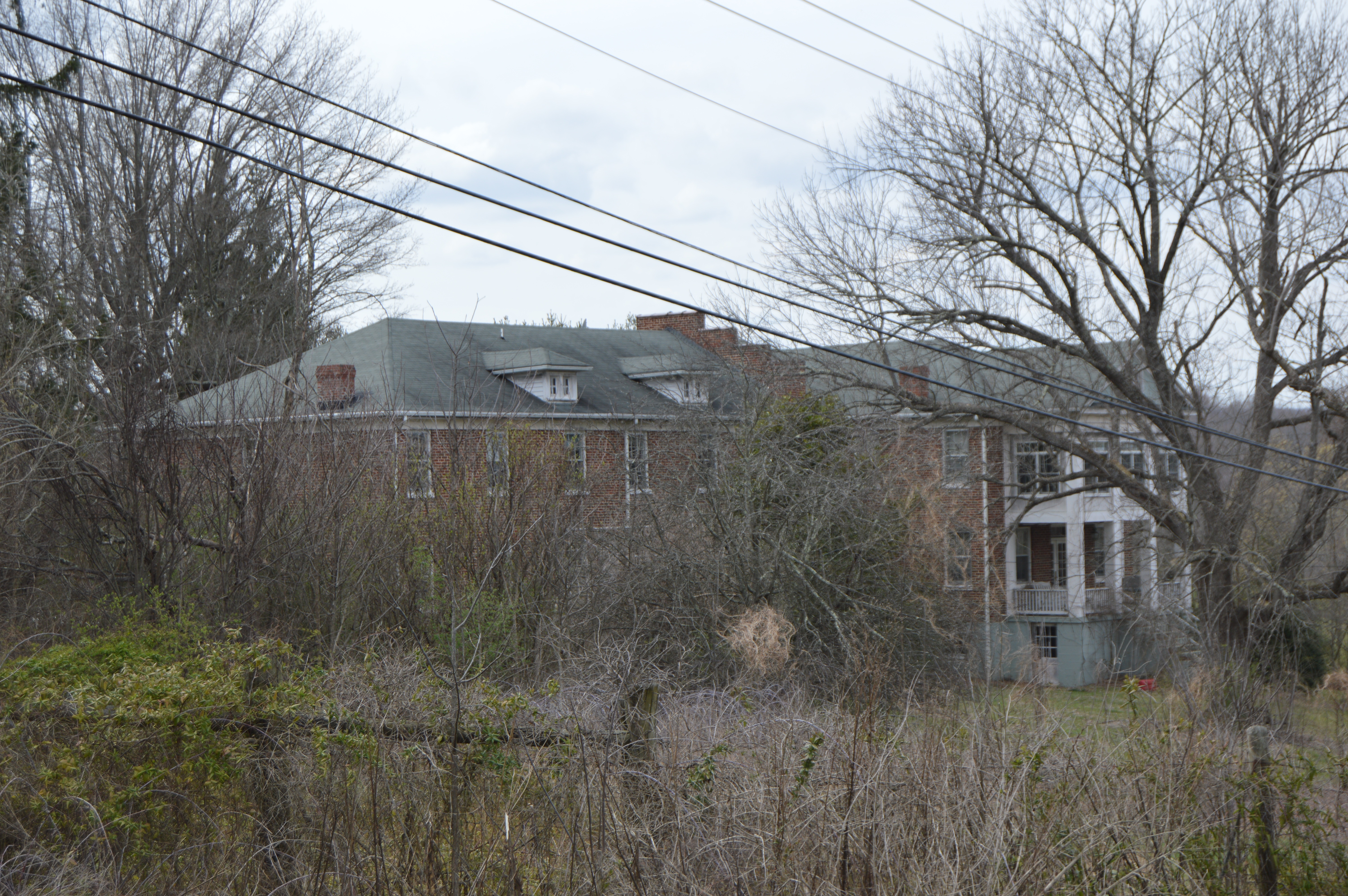 Eastern side of the Fairview District Home, located on Cougar Trail Road just west of Dublin in Pulaski County, Virginia, United States. Built in 1928, it is listed on the National Register of Historic Places.